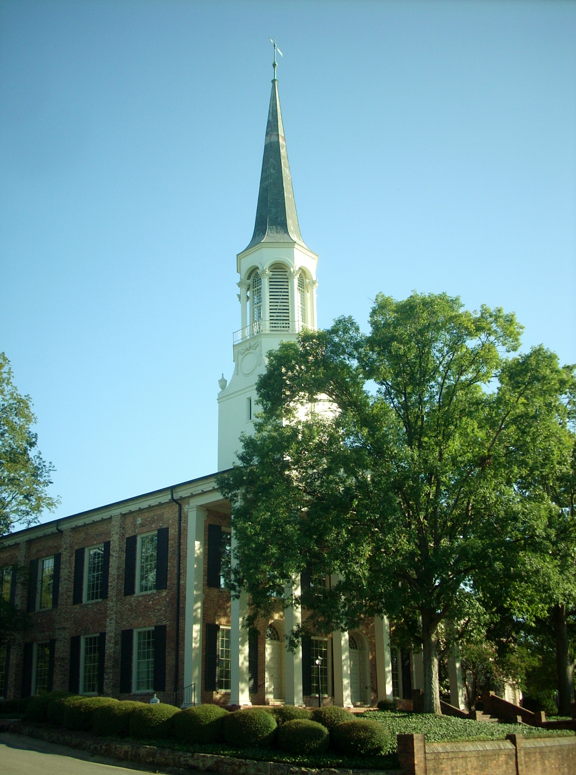 in Fayetteville, Cumberland County, North Carolina on Ann Street It was built in 1816 and added to the National Register of Historic Places in 1976.